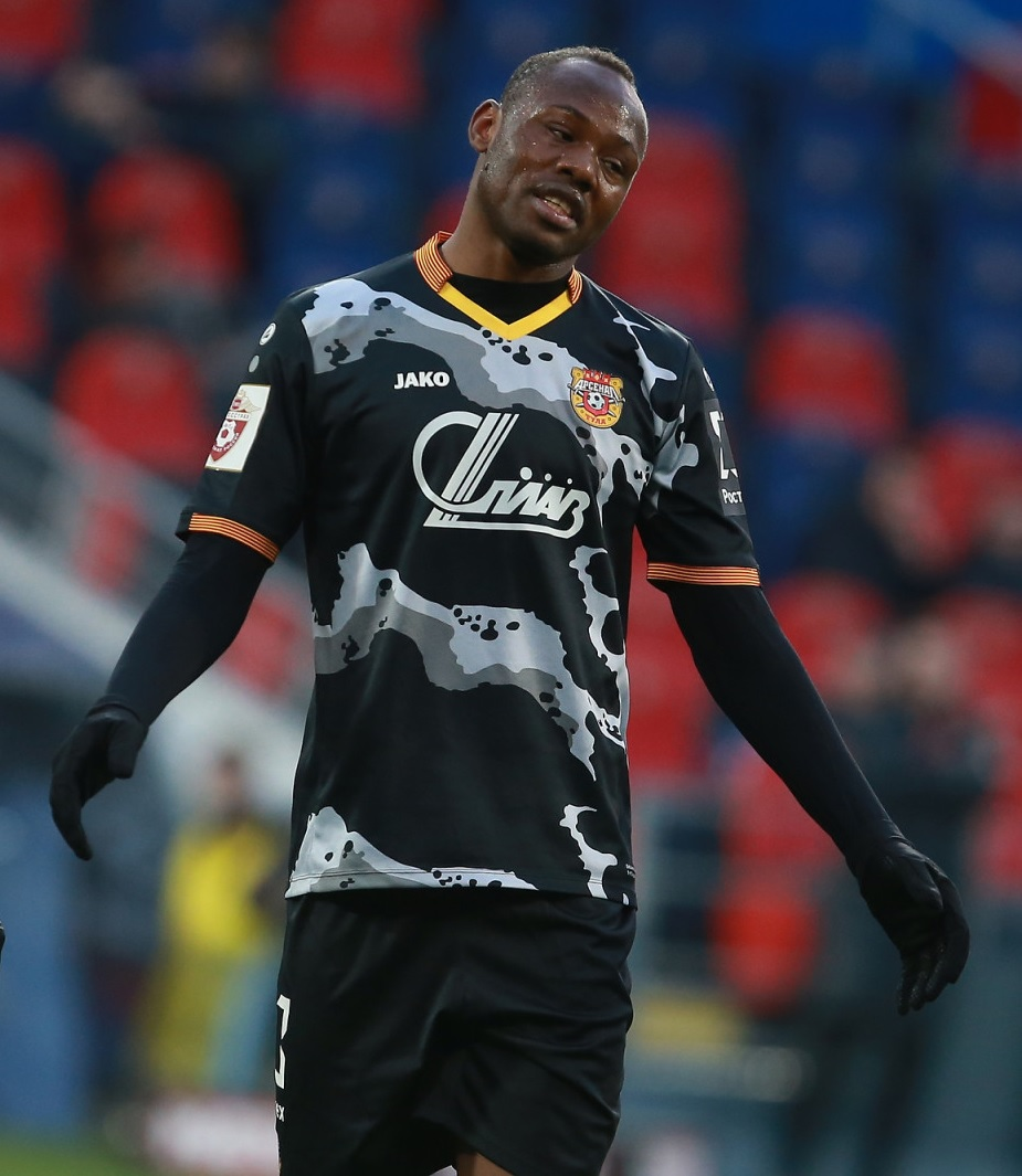 Stoppila Sunzu with FC Arsenal Tula in a game against PFC CSKA Moscow.